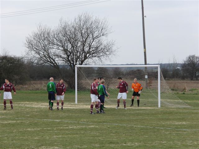 Canterbury City F.C. in action. I took this picture.